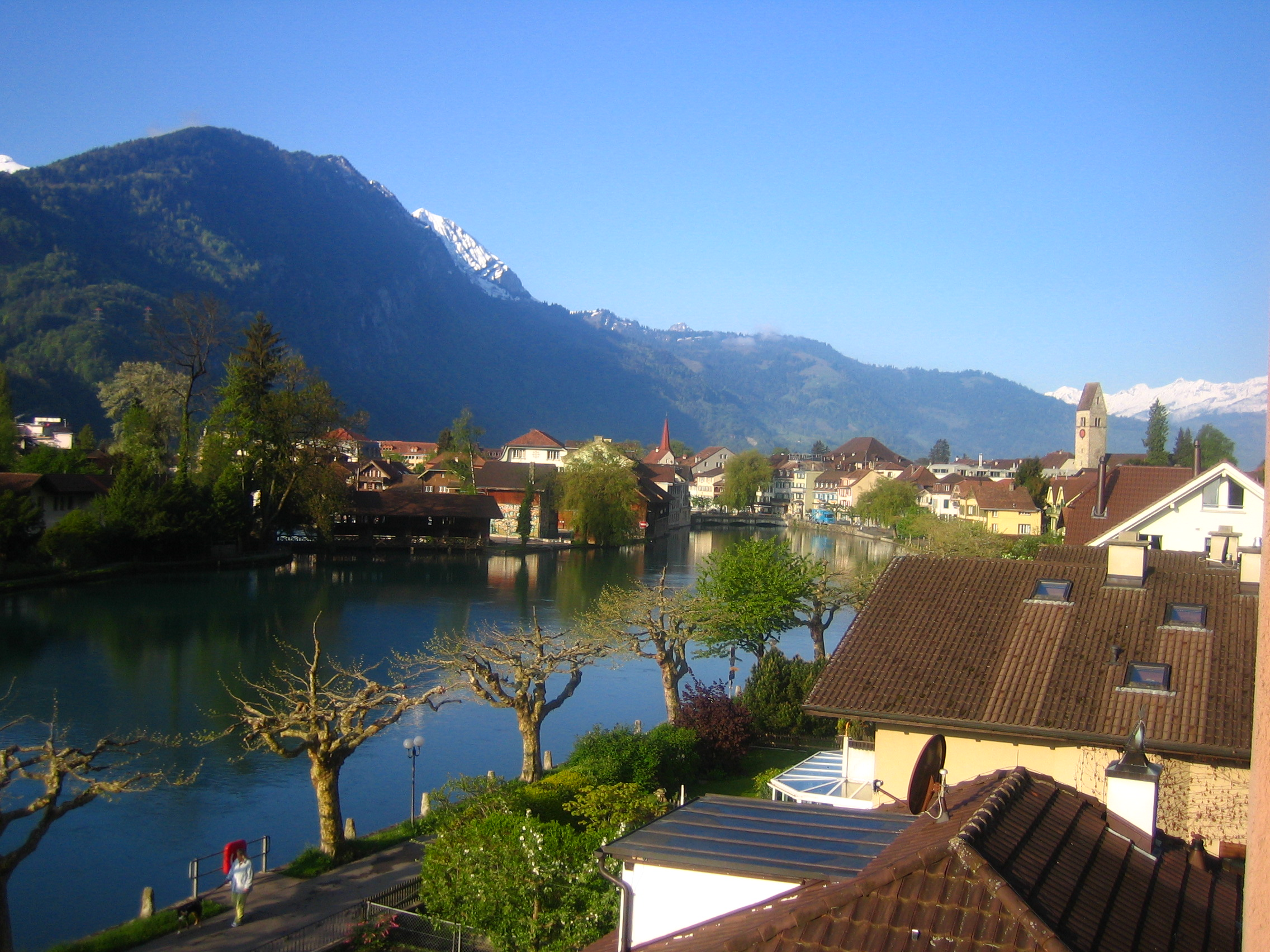 Photo I took while staying in Interlaken, Switzerland.